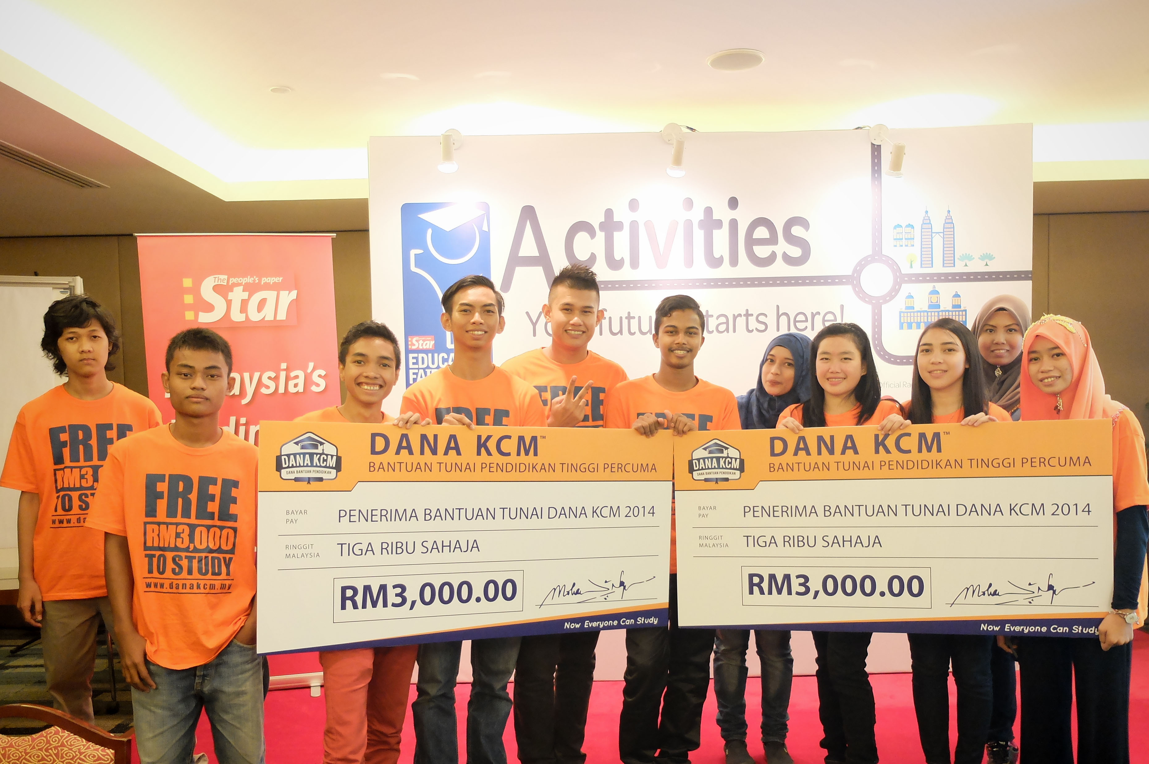 Dana KCM fund distribution for 24 students at the The Star Education Fair 2014